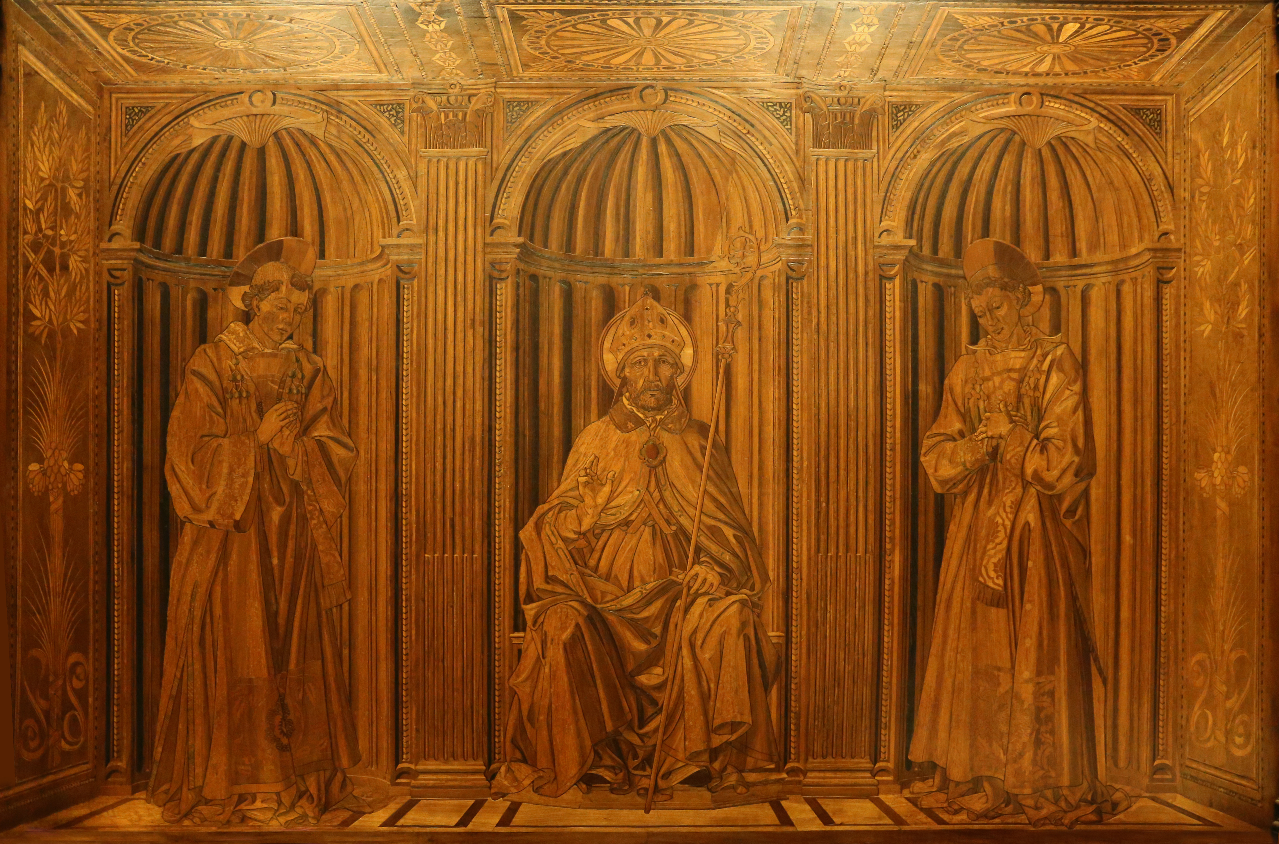 Santa Maria del Fiore (Florence) - Sagrestia delle Messe - Intarsia